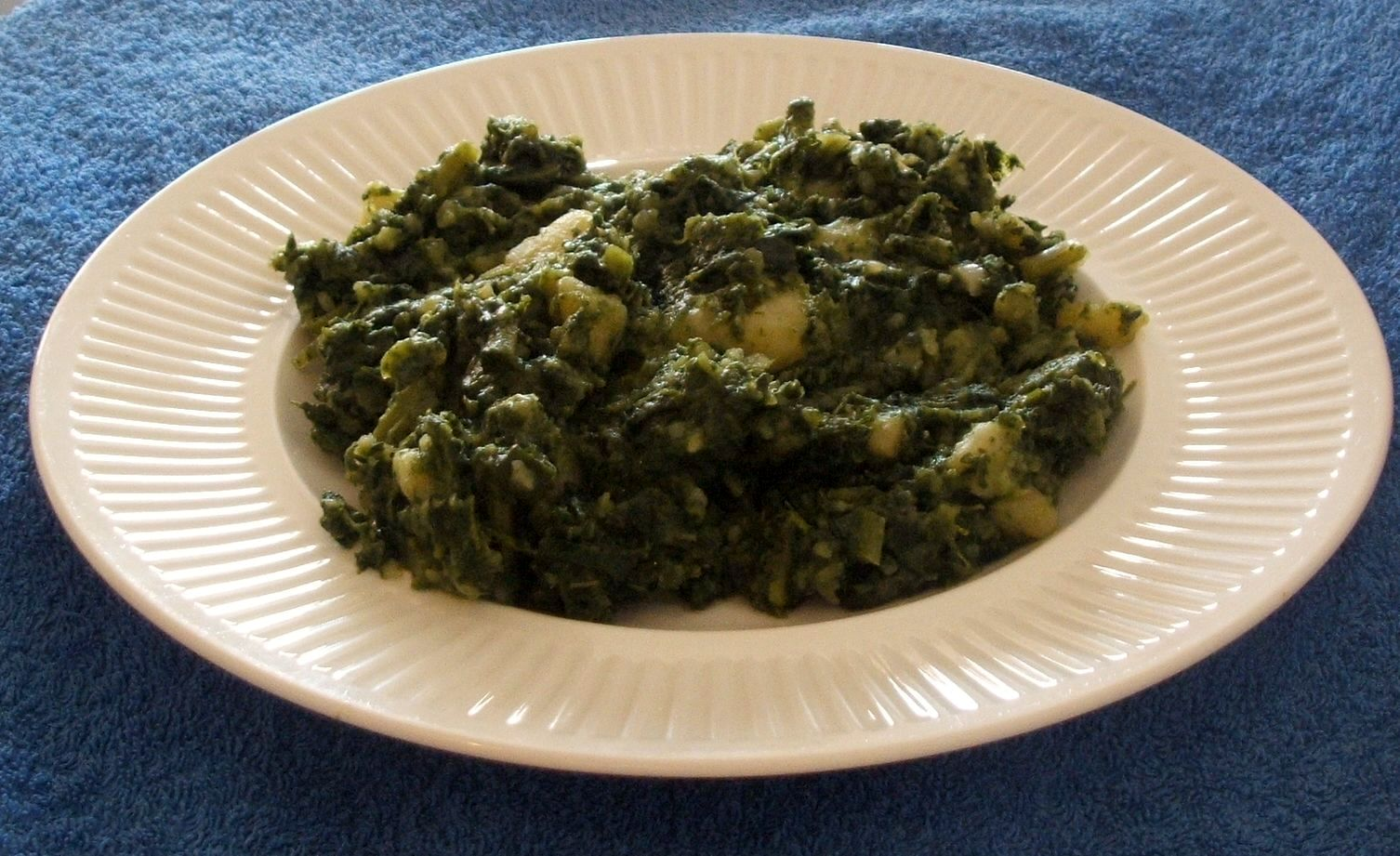 Brassica oleracea var. acephala with potoatoes